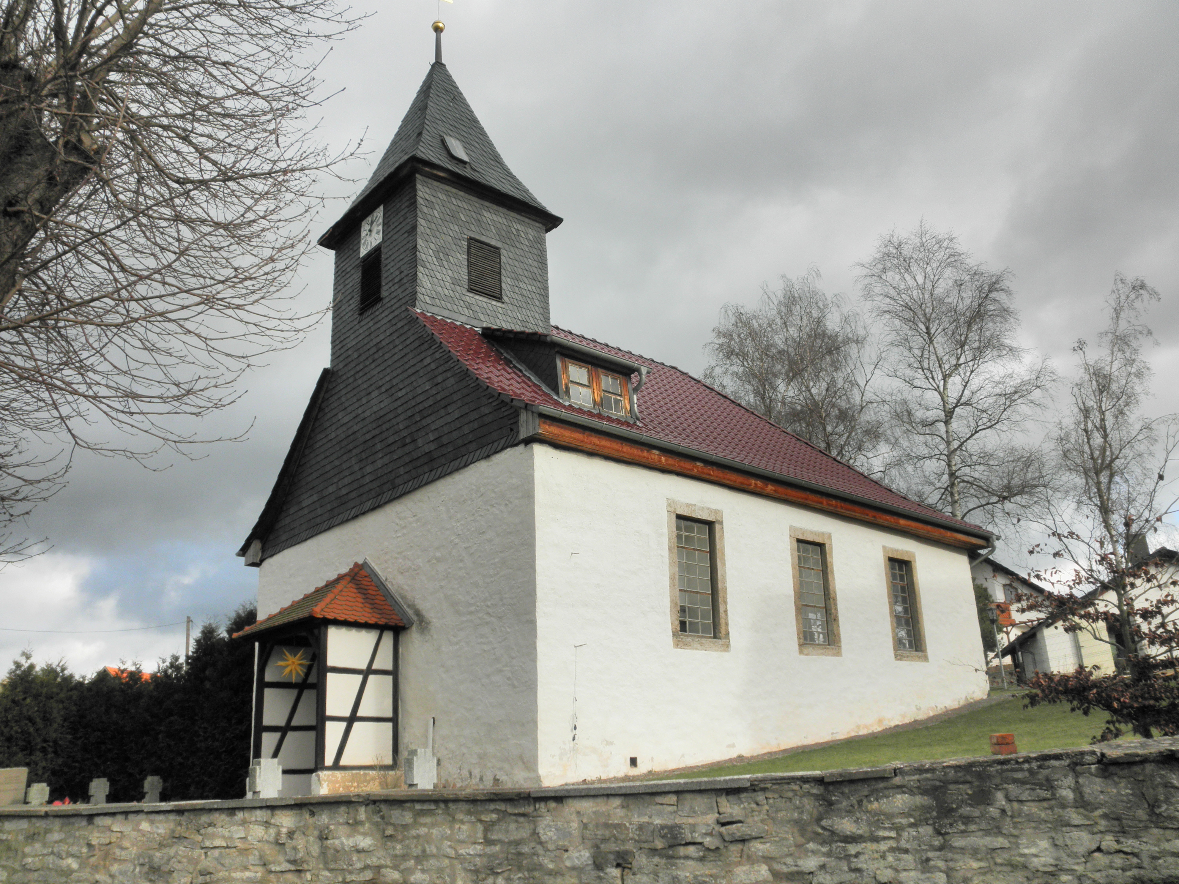 Church in Marolterode in Thuringia